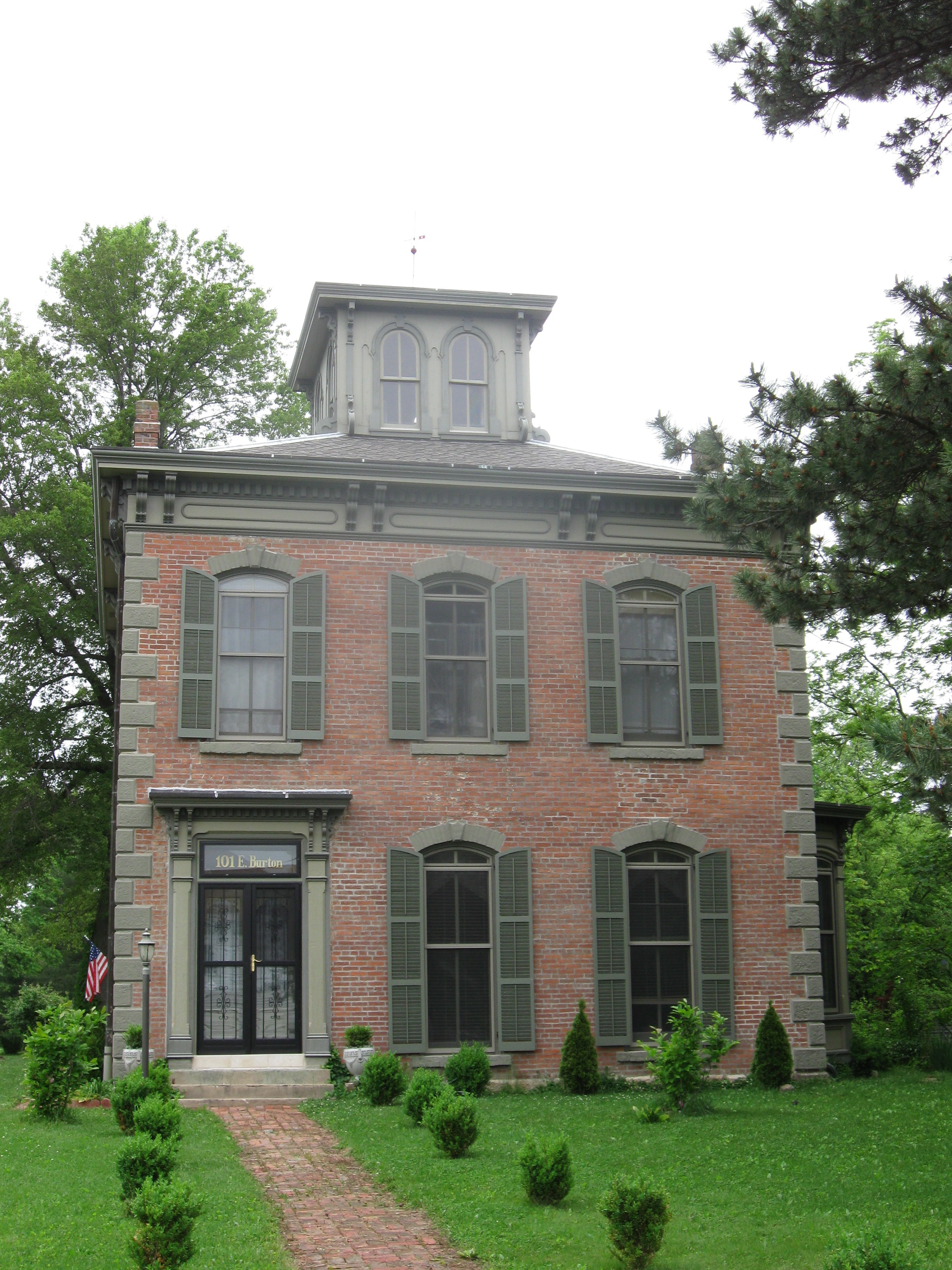 The Captain Thomas C. Harris House, also known as the Parrish House. Located in Kirksville, Missouri, this Italinate-style home was constructed in 1875 for Captain Thomas C. Harris, a Union officer in the Civil War. The home is listed on the National Register of Historic Places. Photo taken 1 October 2009. Photo used courtesy of Catfilmnoir a.k.a. Carol Baier via Flickr.